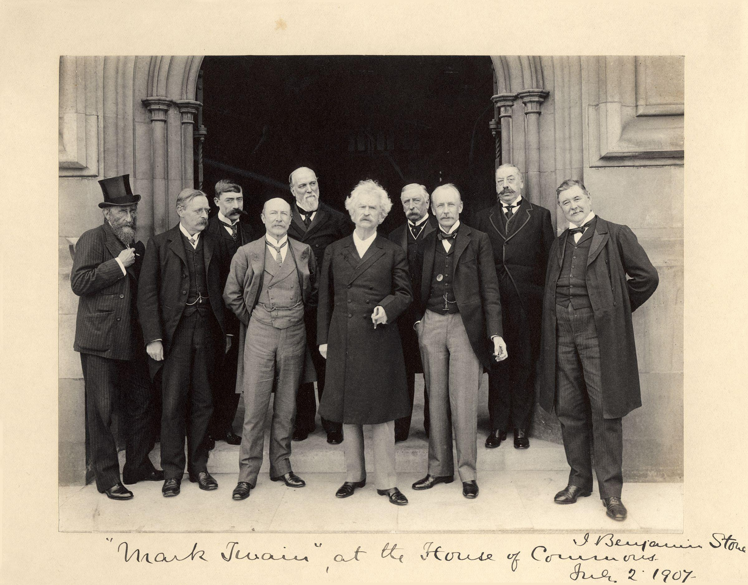 Mark Twain at the House of Commons, by Sir (John) Benjamin Stone (died 1914), given to the National Portrait Gallery, London in 1974. All images in this batch have been confirmed as author died before 1939 according to the official death date listed by the NPG.